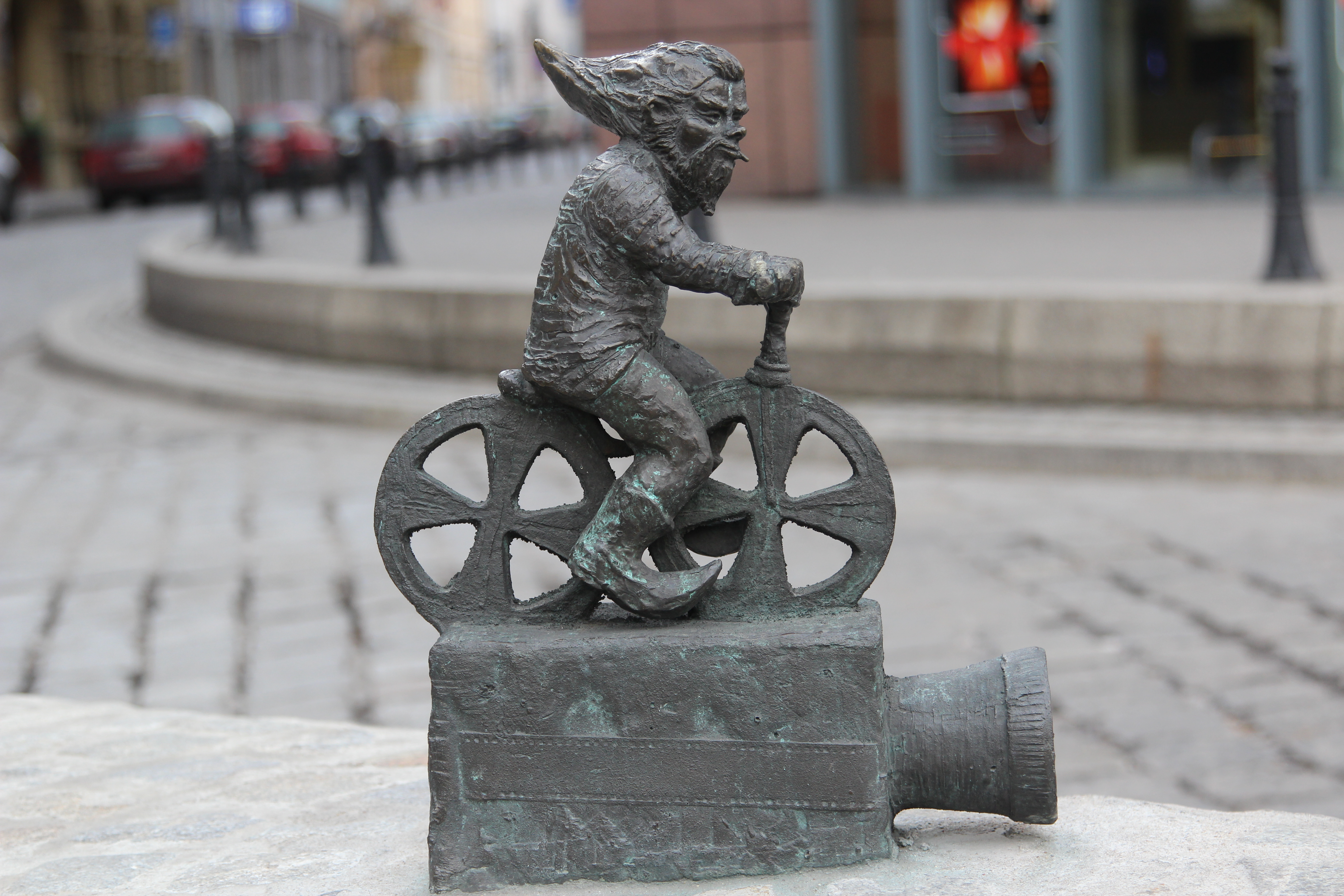 Film Buff Junior (Kinoman Młodszy) in New Horizons Cinema on Kazimierza Wielkiego 19a-21